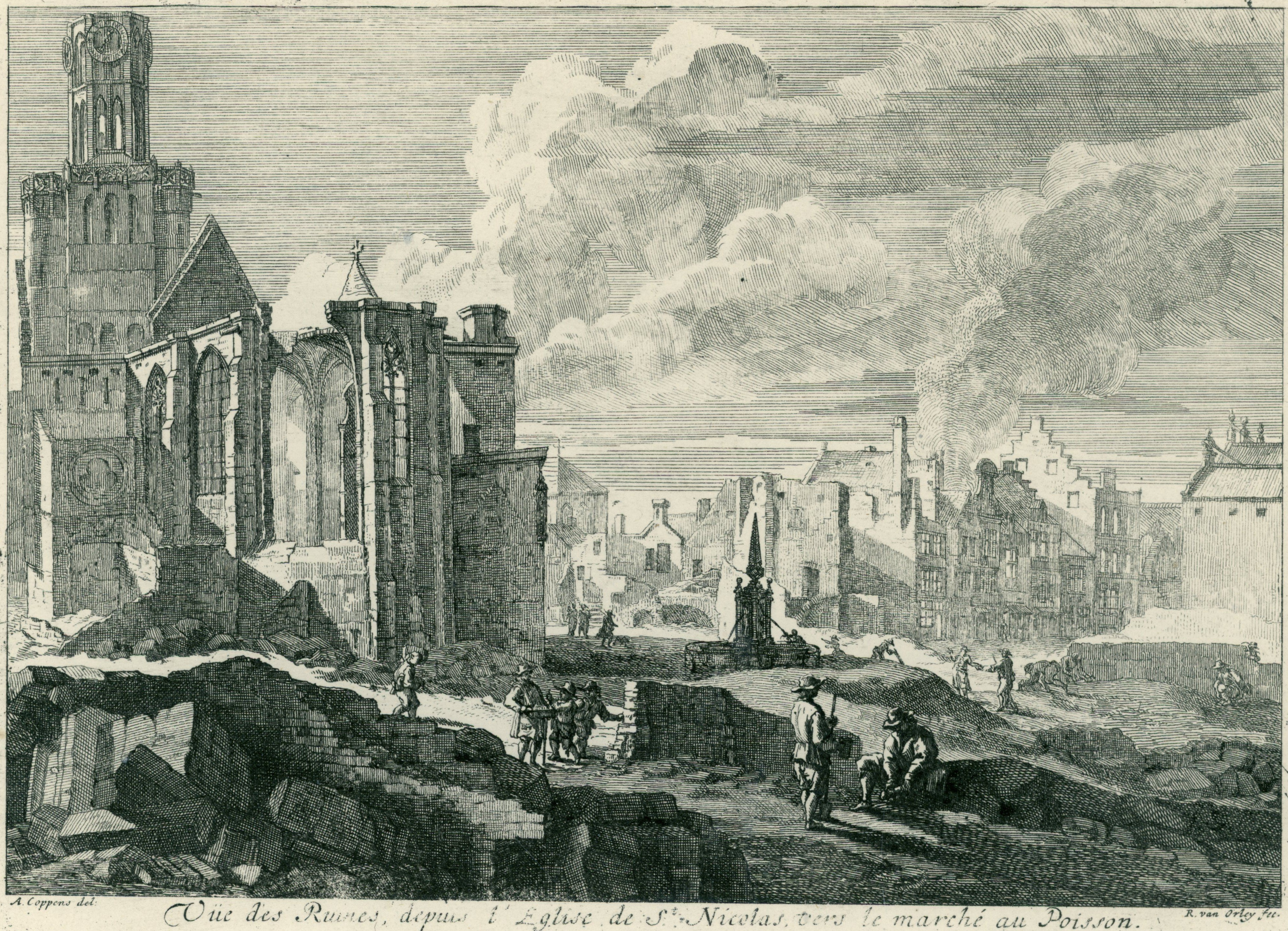 Etching from the series Perspectives des ruines de la ville de Bruxelles (4/12) after drawings by Augustin Coppens (held by the Rijksmuseum, Amsterdam)